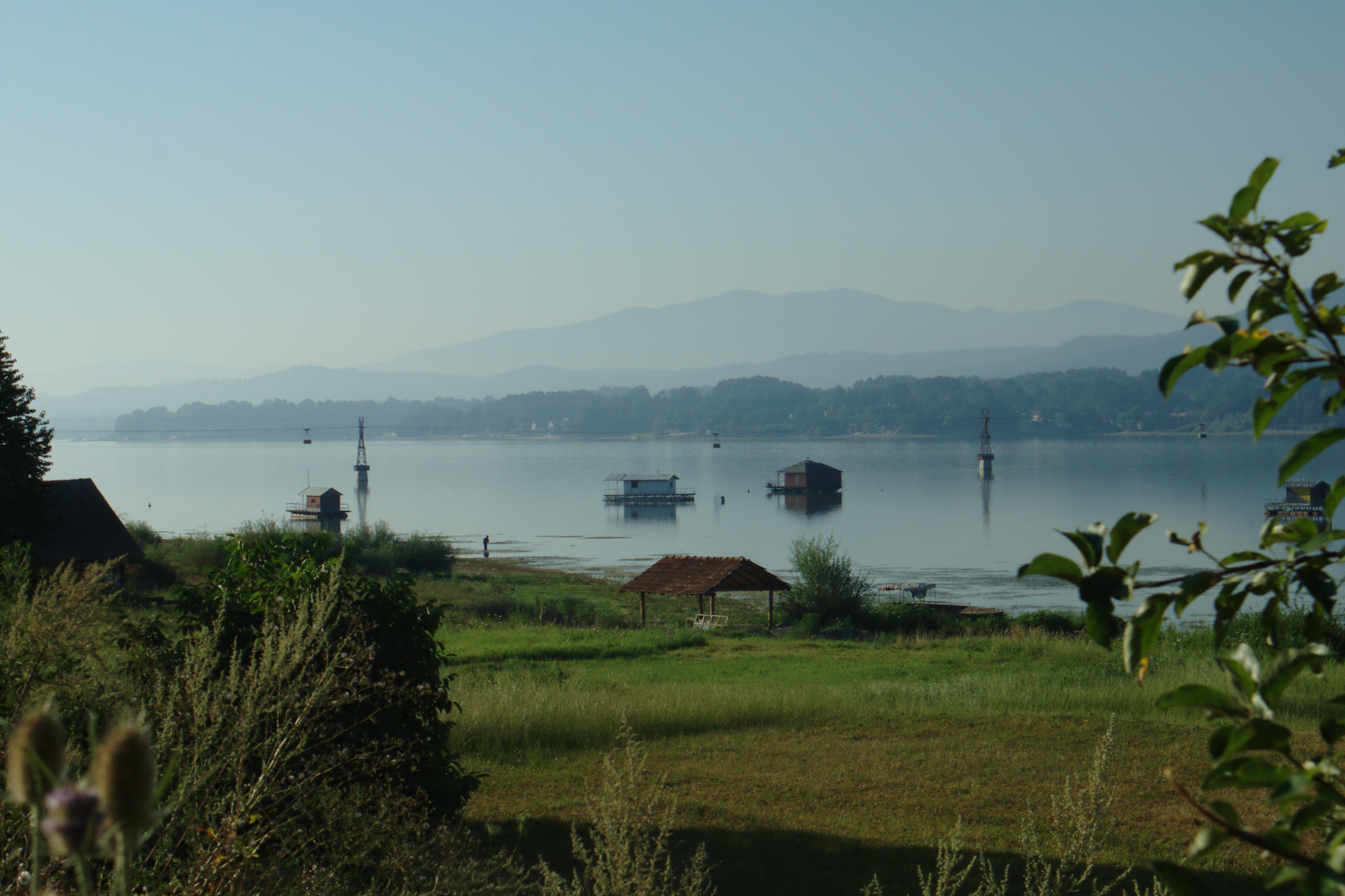 Modračko Lake near the village of Prokosovići, BiH